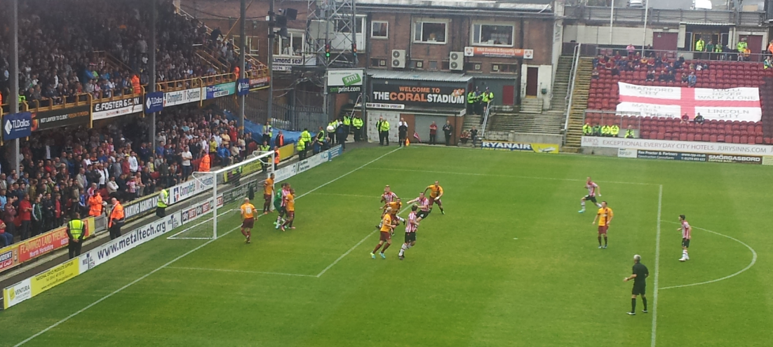 Bradford City FC V Sheffield United FC on 24 August 2013.